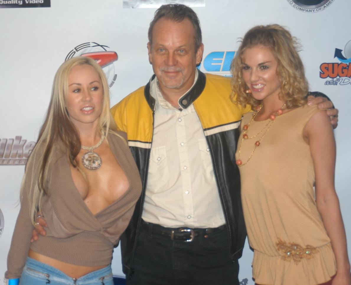 Davia Ardell, James Avalon, Brianna Love at West Coast Productions Party.